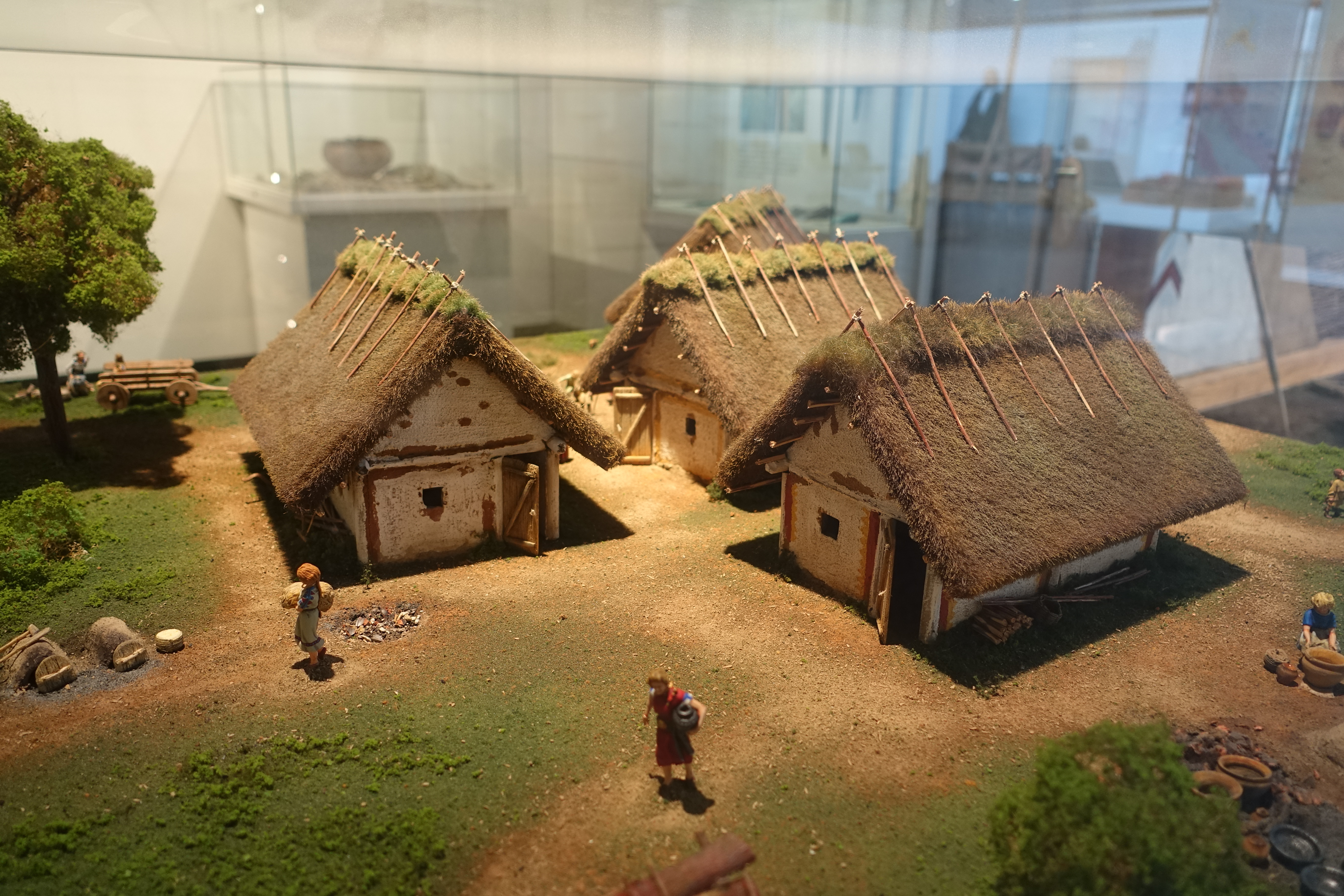 Exhibit in the Naturhistorisches Museum Nürnberg - Nuremberg, Germany.